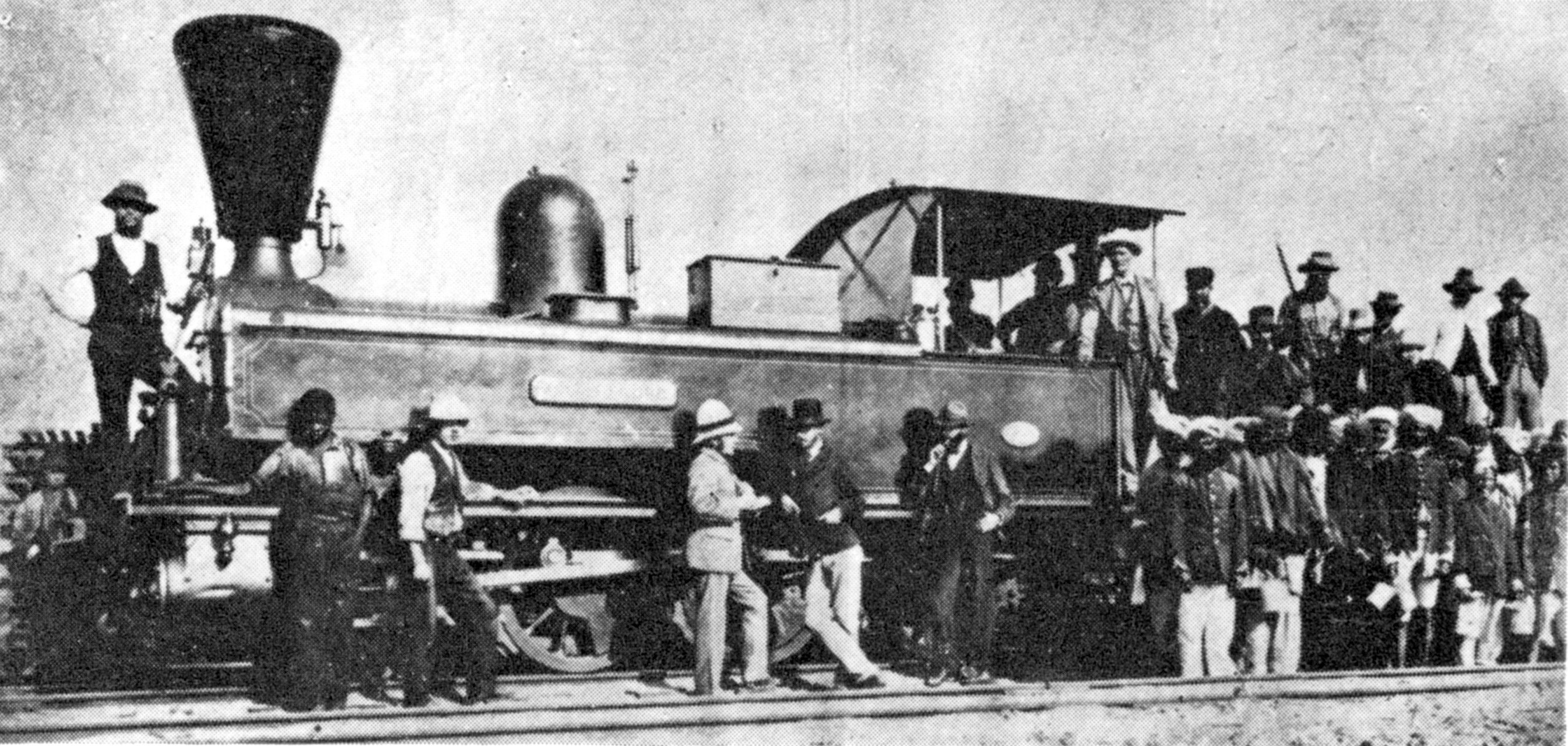 Natal Government Railways 2-6-0T no. 20, ex contractors Wythes & Jackson Ltd. locomotive "Pietermaritzburg" on construction near Pinetown